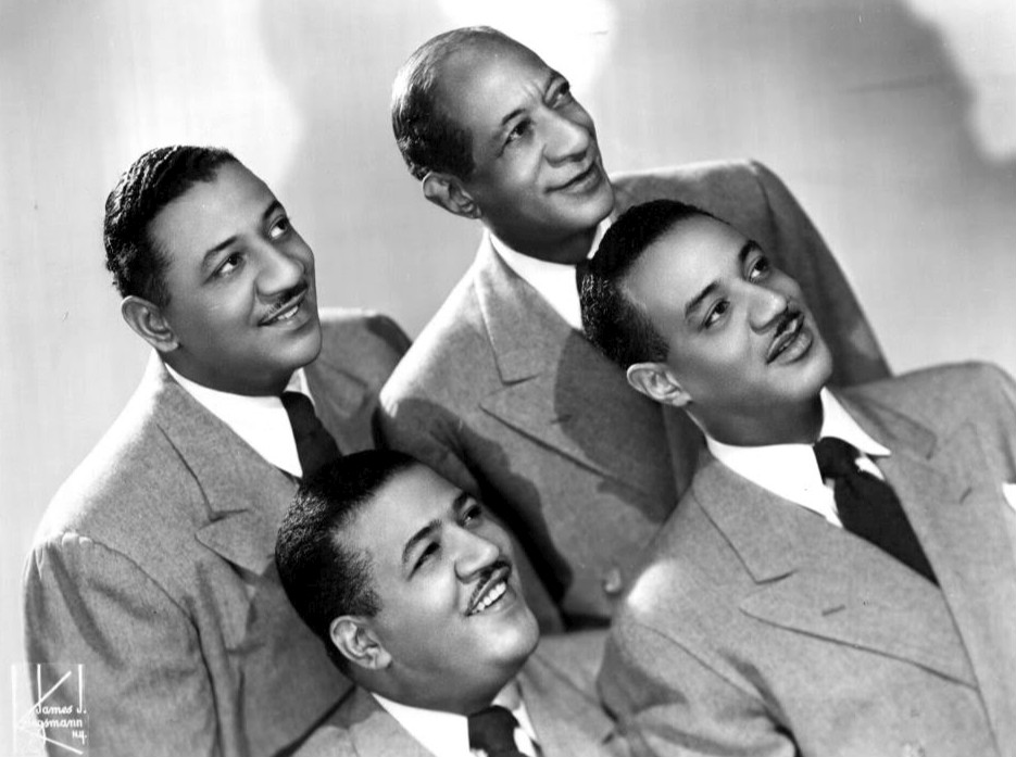 Publicity photo of The Mills Brothers.